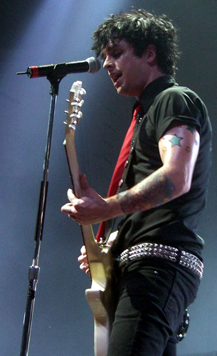 Billie Joe Armstrong, musician, primarily of Green Day. Photograph was taken in Cardiff during the American Idiot tour, using a Casio QV-R40 35mm.